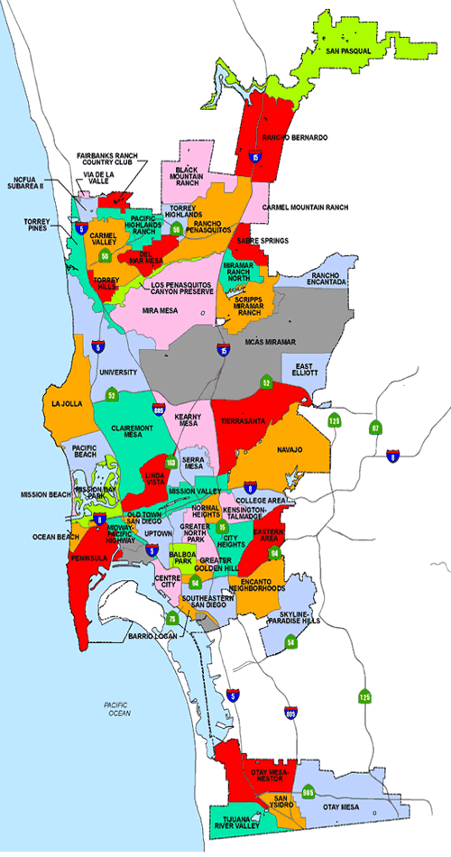 Map produced by the City of San Diego showing the different communities within it.